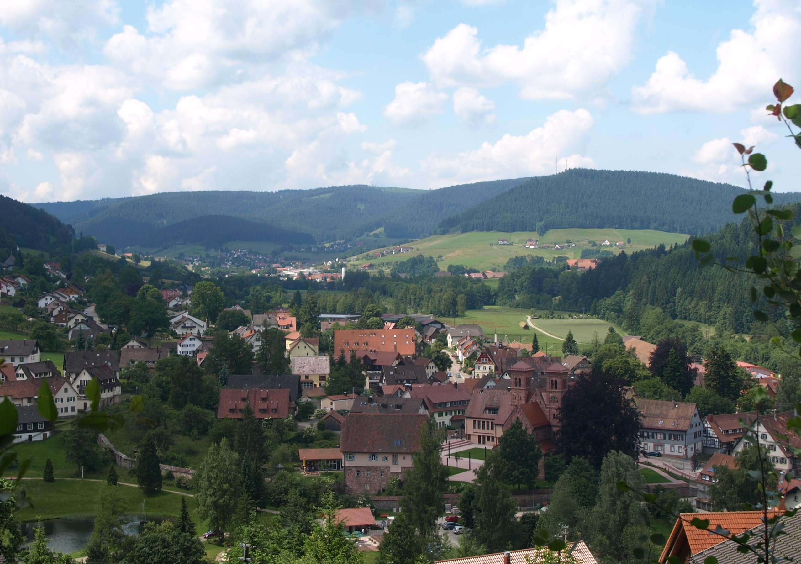 Panoramic view of Klosterreichenbach, photographed towards southwest